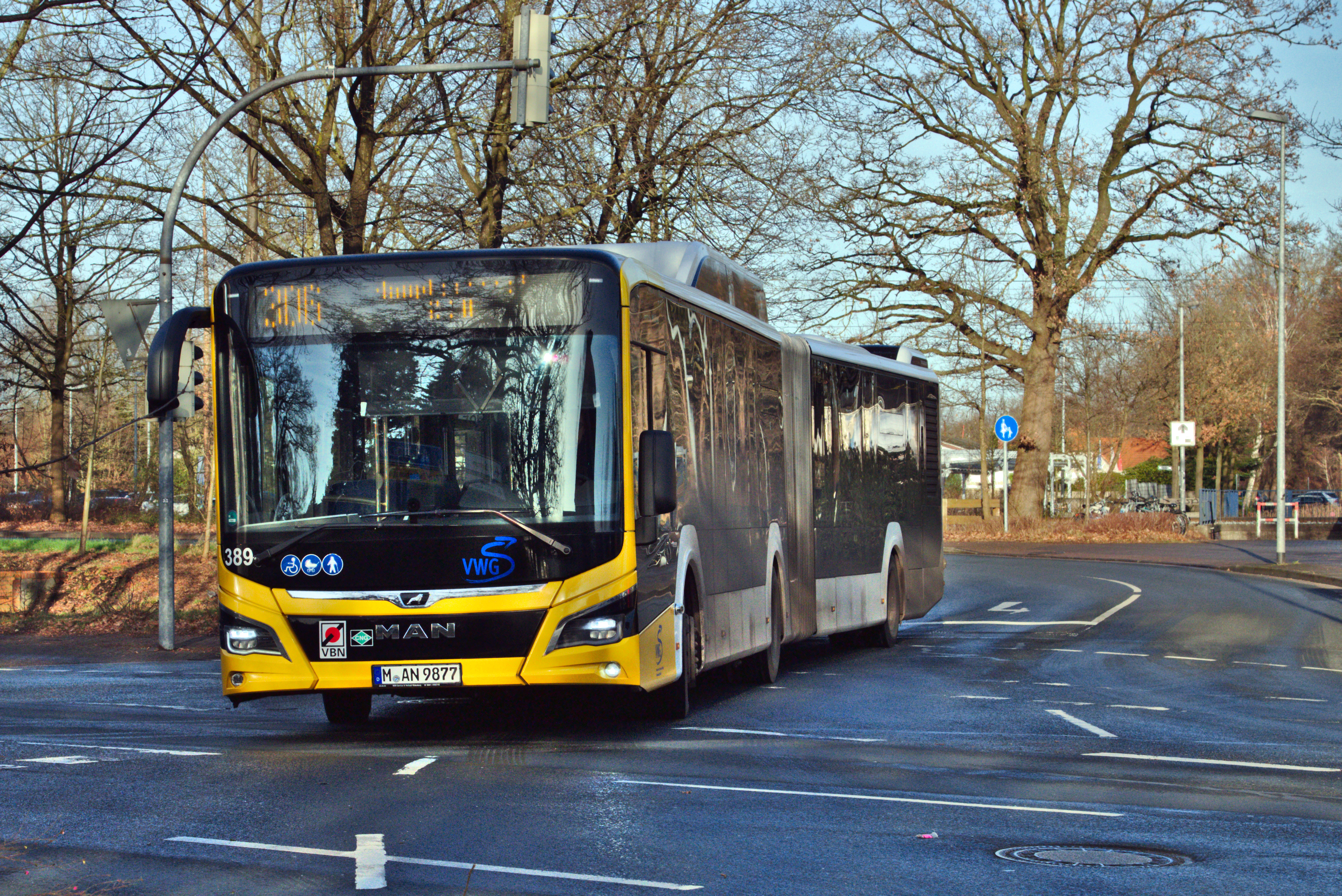 An MAN Lion's City G CNG (2nd generation; type A23) on a test drive at the transport company Verkehr & Wasser in Oldenburg (Lower Saxony, Germany) on route 306 (university → bus terminal) turning from Carl-von-Ossietzky-Straße into Ammerländer Heerstraße street just before reaching Grotepool stop, seen from the front left side.